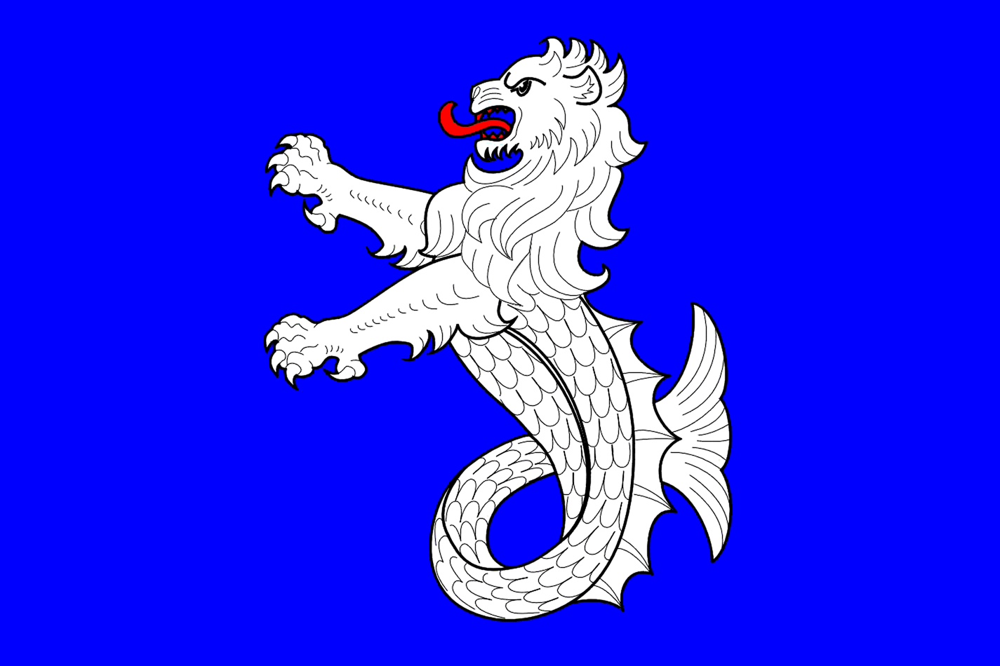 Flag of Svirstroy, Leningrad Region, Russia